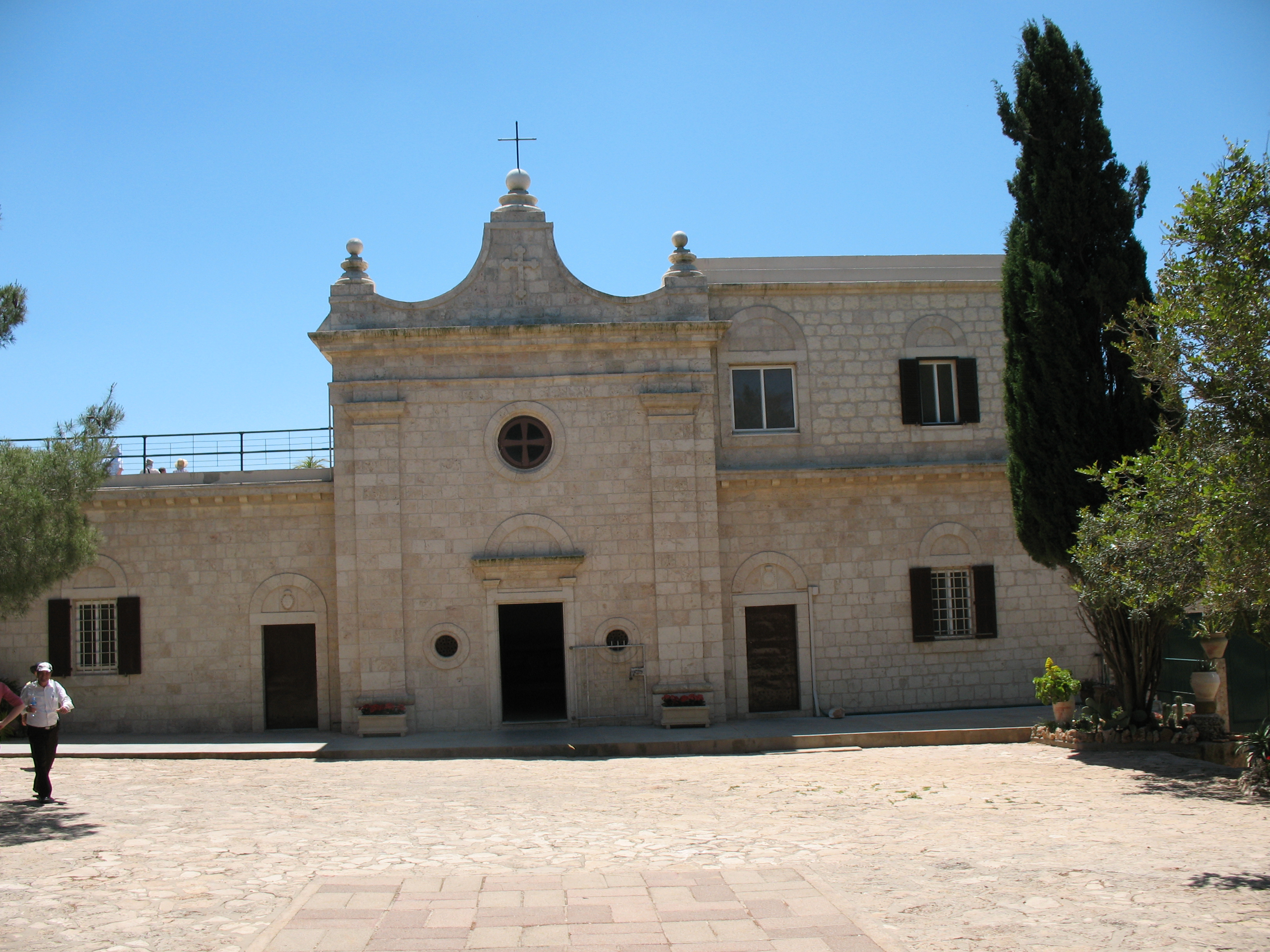 St Elias Church at the Muhraka Monastery